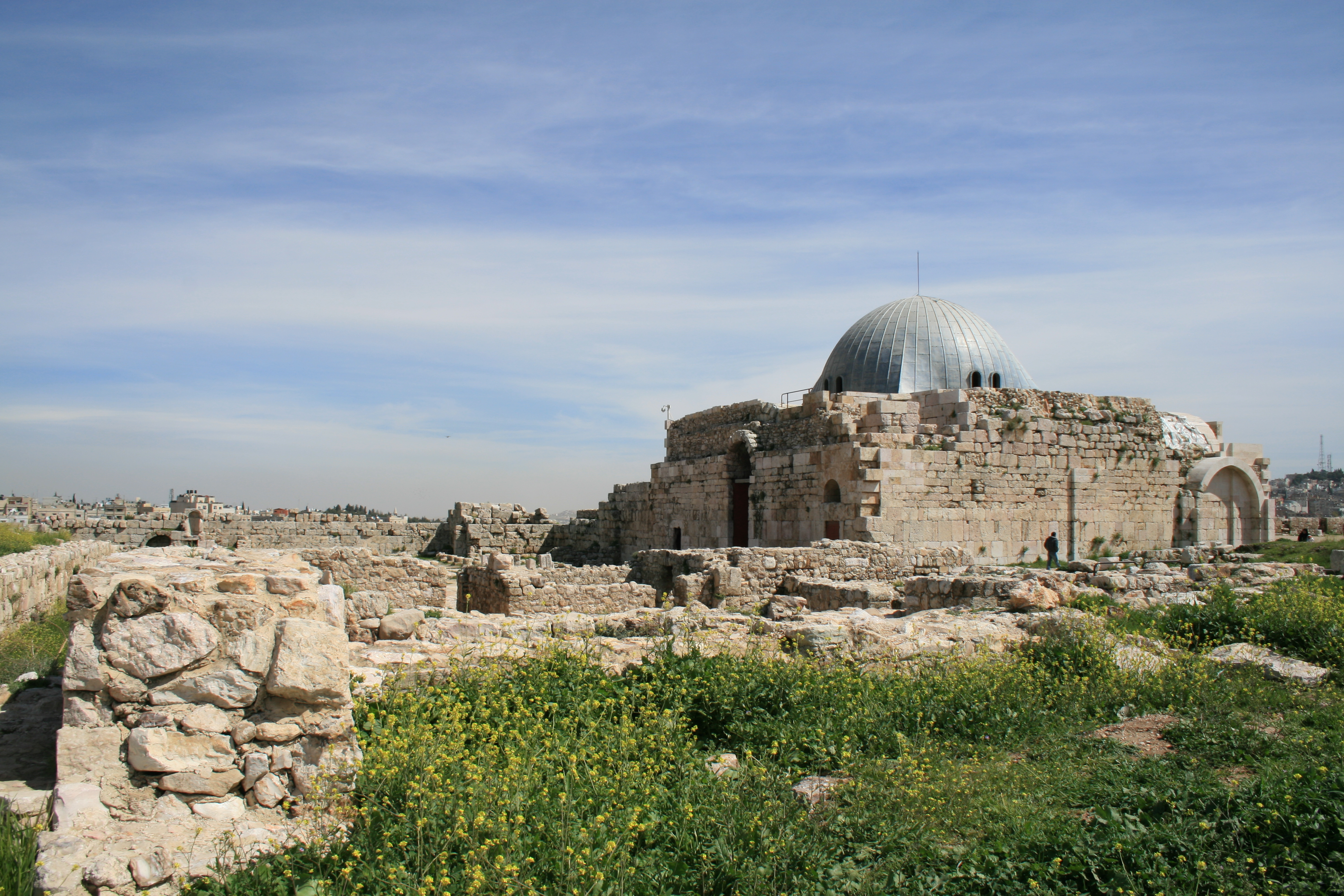 Umayyad Qasr Amman citadel